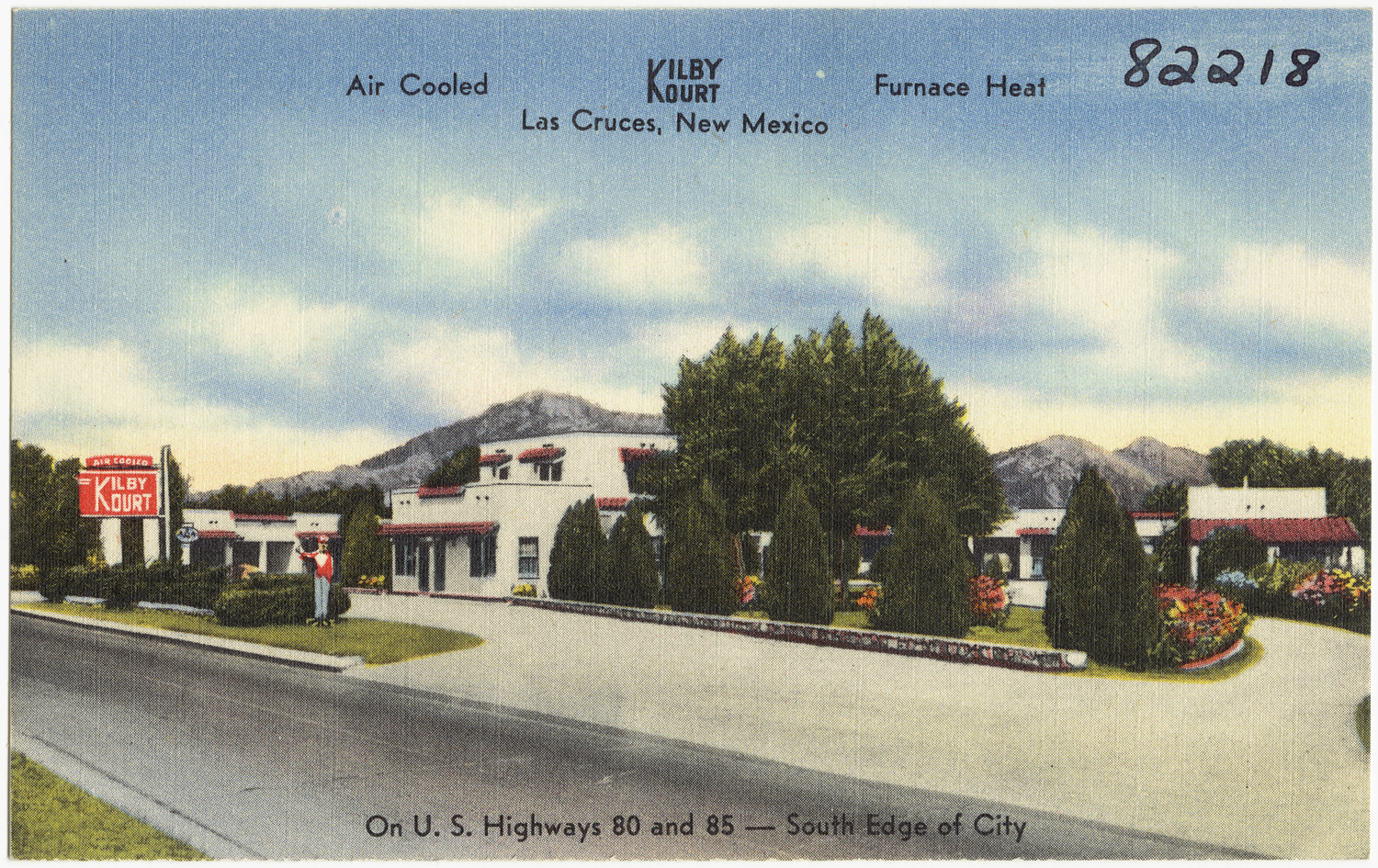 File name: 06_10_015633 Title: Kilby Court, Las Cruces, New Mexico. On U.S. Highways 80 and 85 -- South edge of city Created/Published: Alfred Mc Garr Adv. Ser., Albuquerque, N. M. Date issued: 1930 - 1945 (approximate) Physical description: 1 print (postcard) : linen texture, color ; 3 1/2 x 5 1/2 in. Genre: Postcards Subjects: Motels Collection: The Tichnor Brothers Collection Location: Boston Public Library, Print Department Rights: No known restrictions Flickr data on 2011-08-17: Camera: Epson Exp10000XL10000 Tags: postcard, tichnor brothers, New Mexico License: CC BY 2.0 User: Boston Public Library